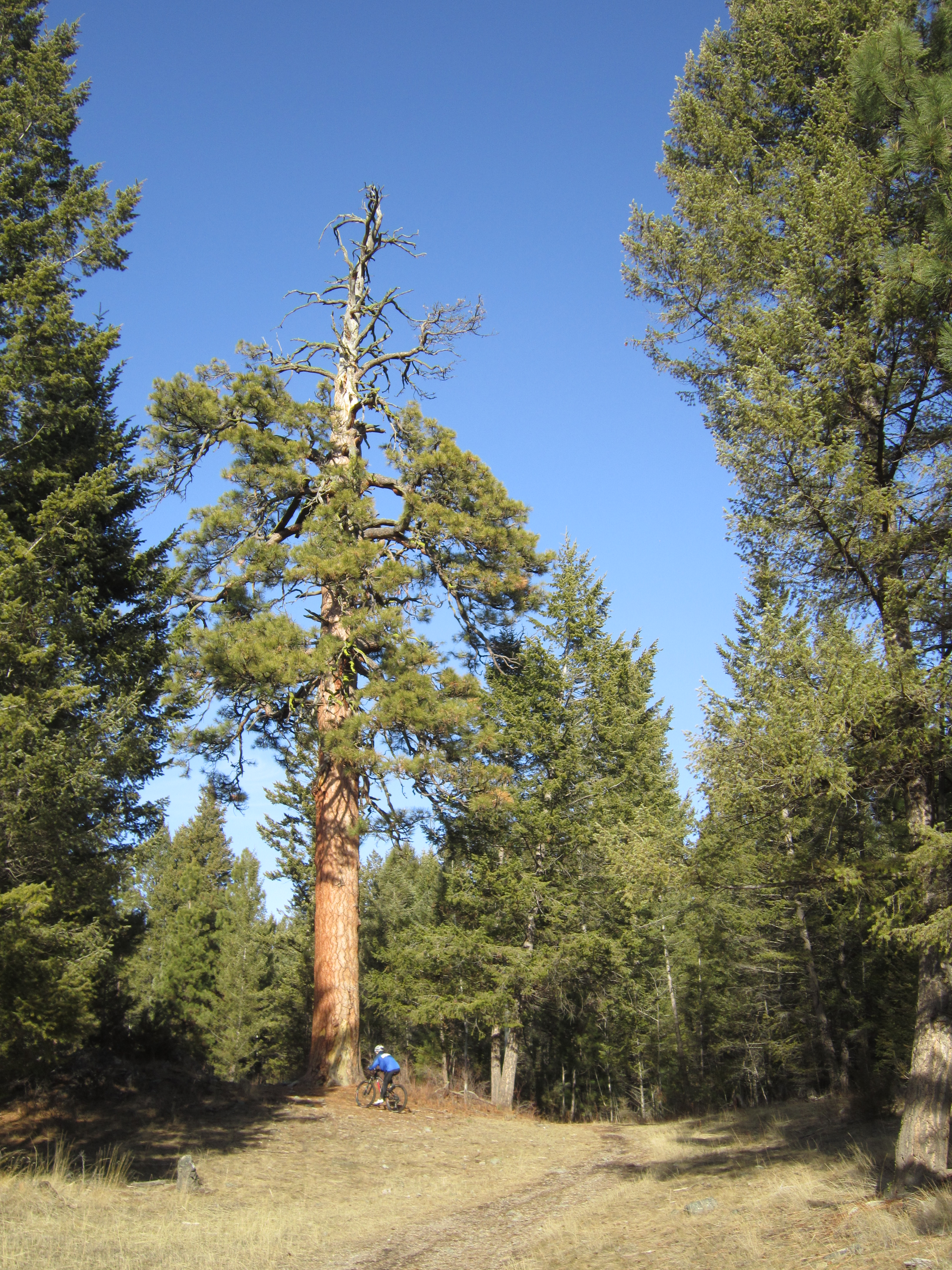 "Big tree" mountain bike trail in Cranbrook, British Columbia